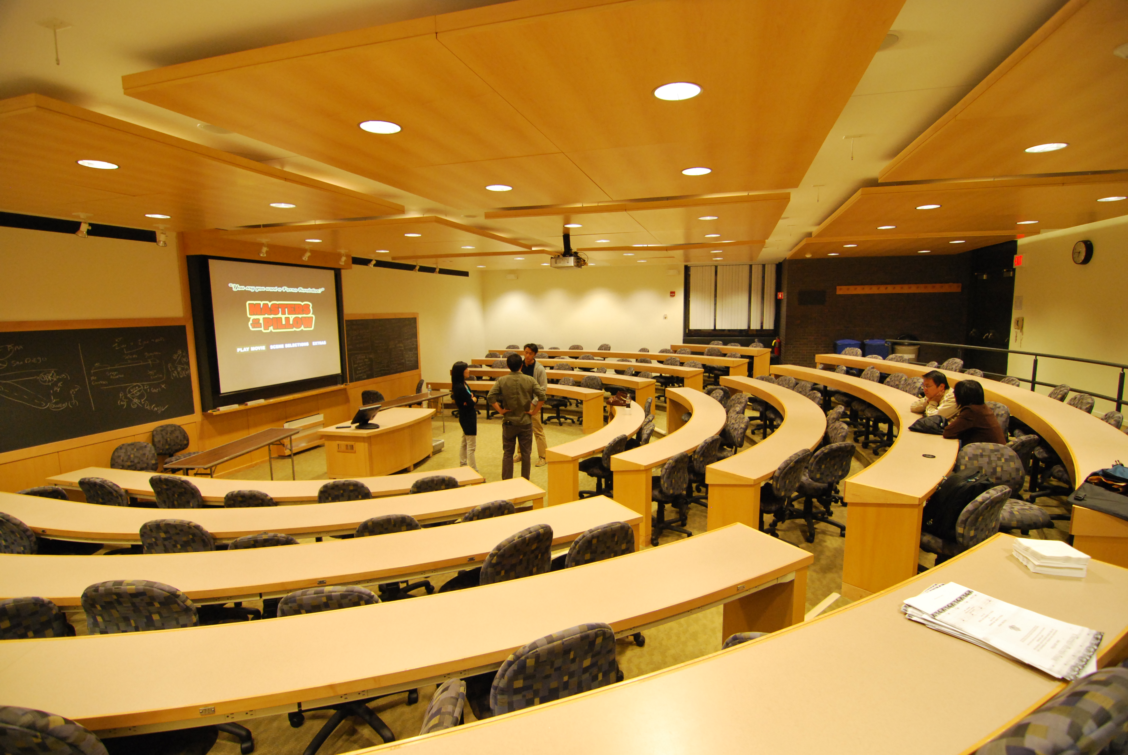 Pound Hall Harvard Law School 2009